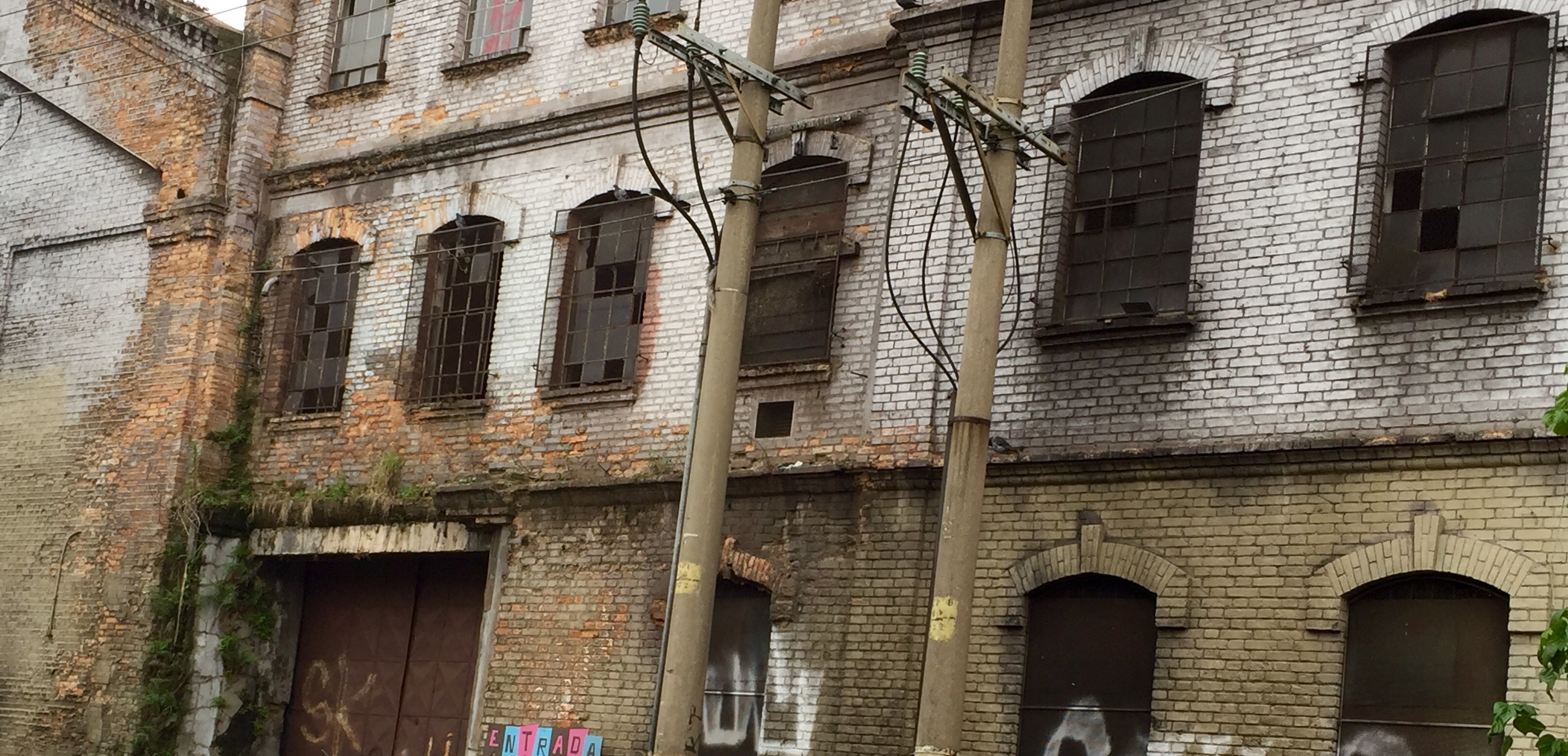 Matarazzo Mill west facade windows and entrance details, São Paulo, Brazil.